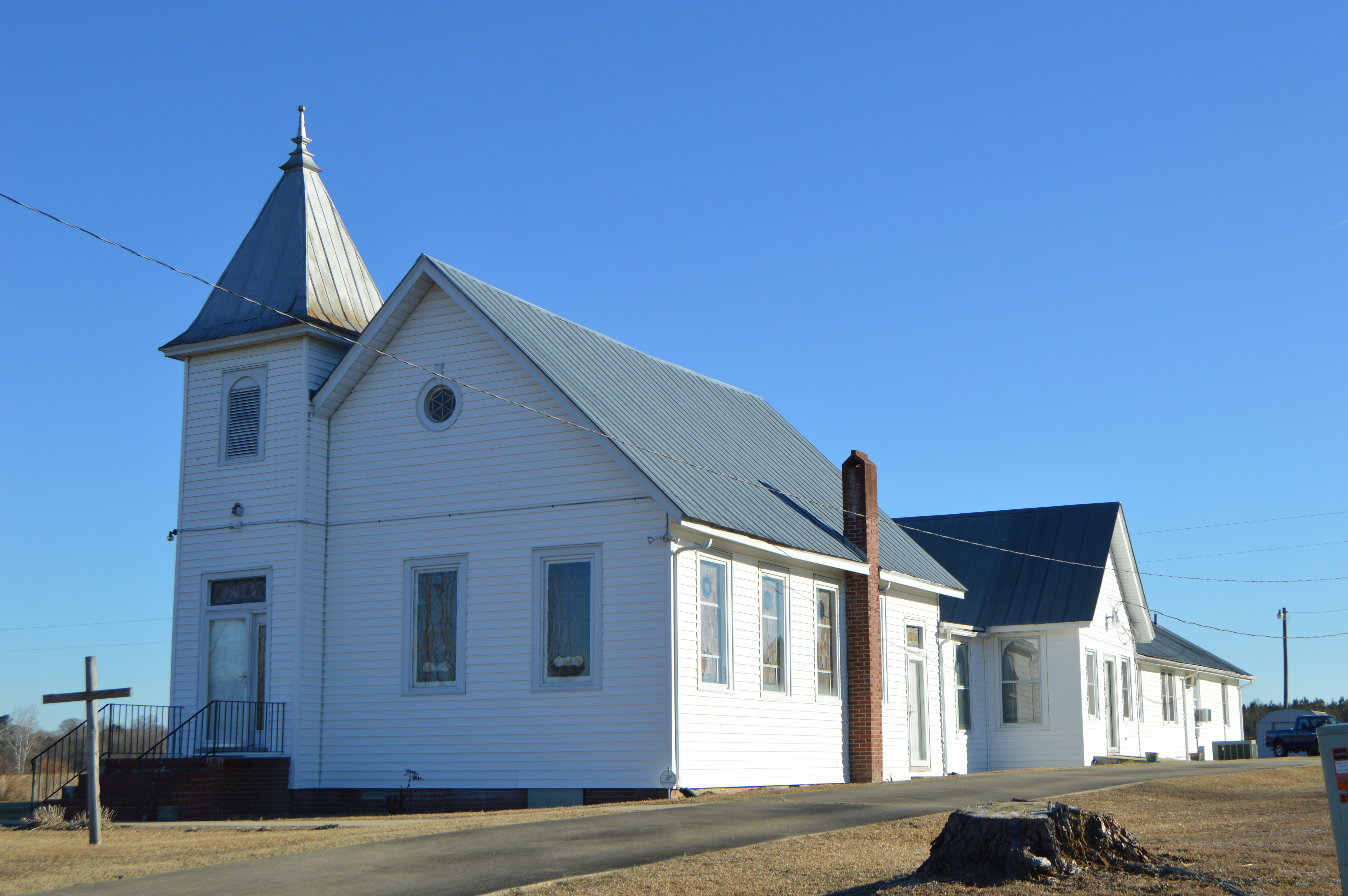 Front and southern side of Adams Grove Baptist Church, located on Adams Grove Road at Adams Grove in Southampton County, Virginia, United States.